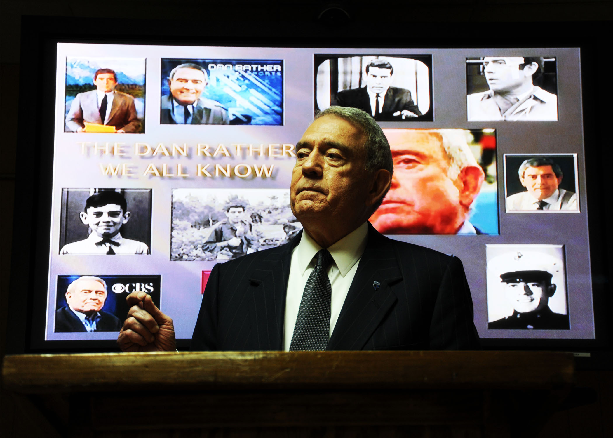 Dan Rather, anchor and editor of Dan Rather Reports on the cable network HDNet, speaks before a group of North Atlantic Treaty Organization Training Mission Afghanistan commanders in the Leadership Conference Room on Camp Eggers, Kabul, Afghanistan, July 27, 2011, about his experiences in his 61 years of journalism. He spoke in depth about the historical and tumultuous relationship between the media and military, and the role each has played in American opinion. Dan Rather and his HDNet production team toured various training, recruiting, and educational centers around Afghanistan collecting footage for a segment set to air in early September this year on the coalition to Afghan security forces transition. (U.S. Air Force photo by Senior Airman Kat Lynn Justen)